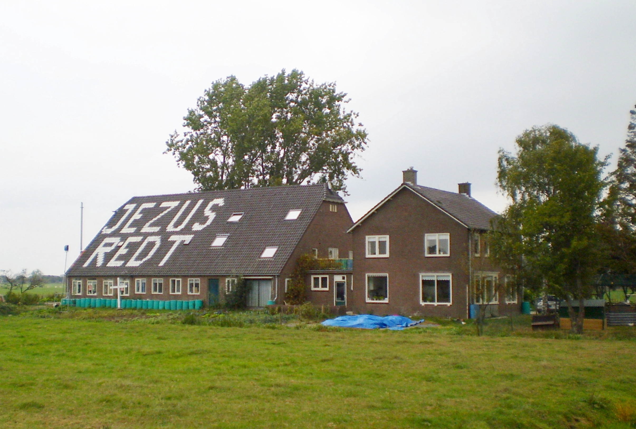 "Jezus redt" (Jesus saves), painted on the roof of Van Ooijen family's farm, Giessenburg, the Netherlands